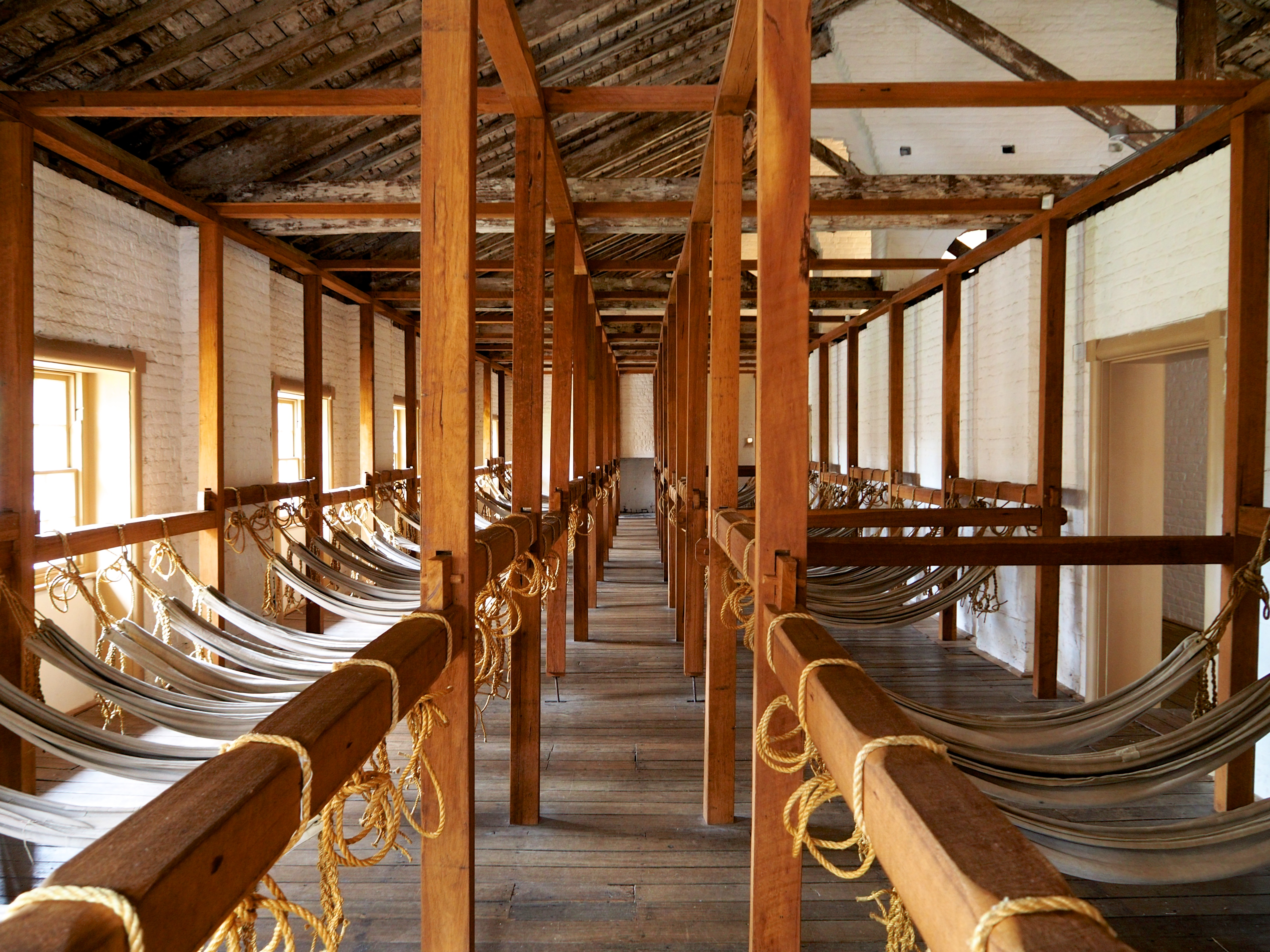 Hyde Park Barracks, interior, Macquarie Street, Sydney, Australia